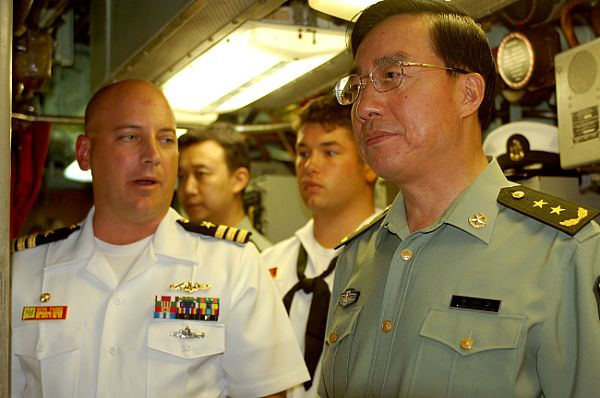 Lt. Gen. Zhang Qinsheng, commander of Guangzhou Military Region, China, tours the control room of the fast-attack submarine USS Santa Fe (SSN 763) with commanding officer Cmdr. Vernon Parks. Qinsheng, who oversees the Guangdong, Guangxi, Hunan, Hebei and Hainan Provinces of China, visited Pearl Harbor as part of the continuum of reciprocal exchanges between our two countries, designed to promote peaceful development in the Asia-Pacific region.